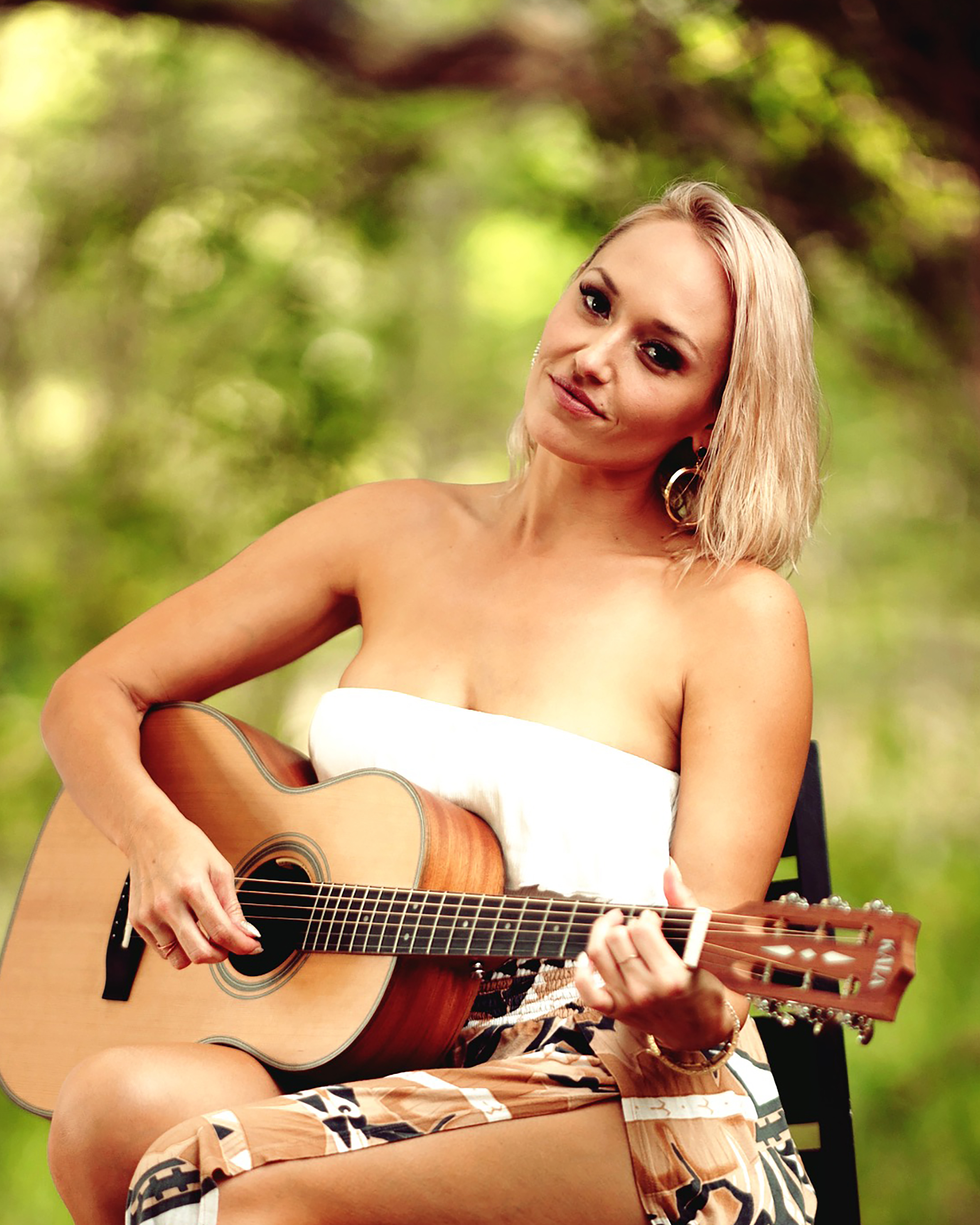 Anuhea's current promo photo